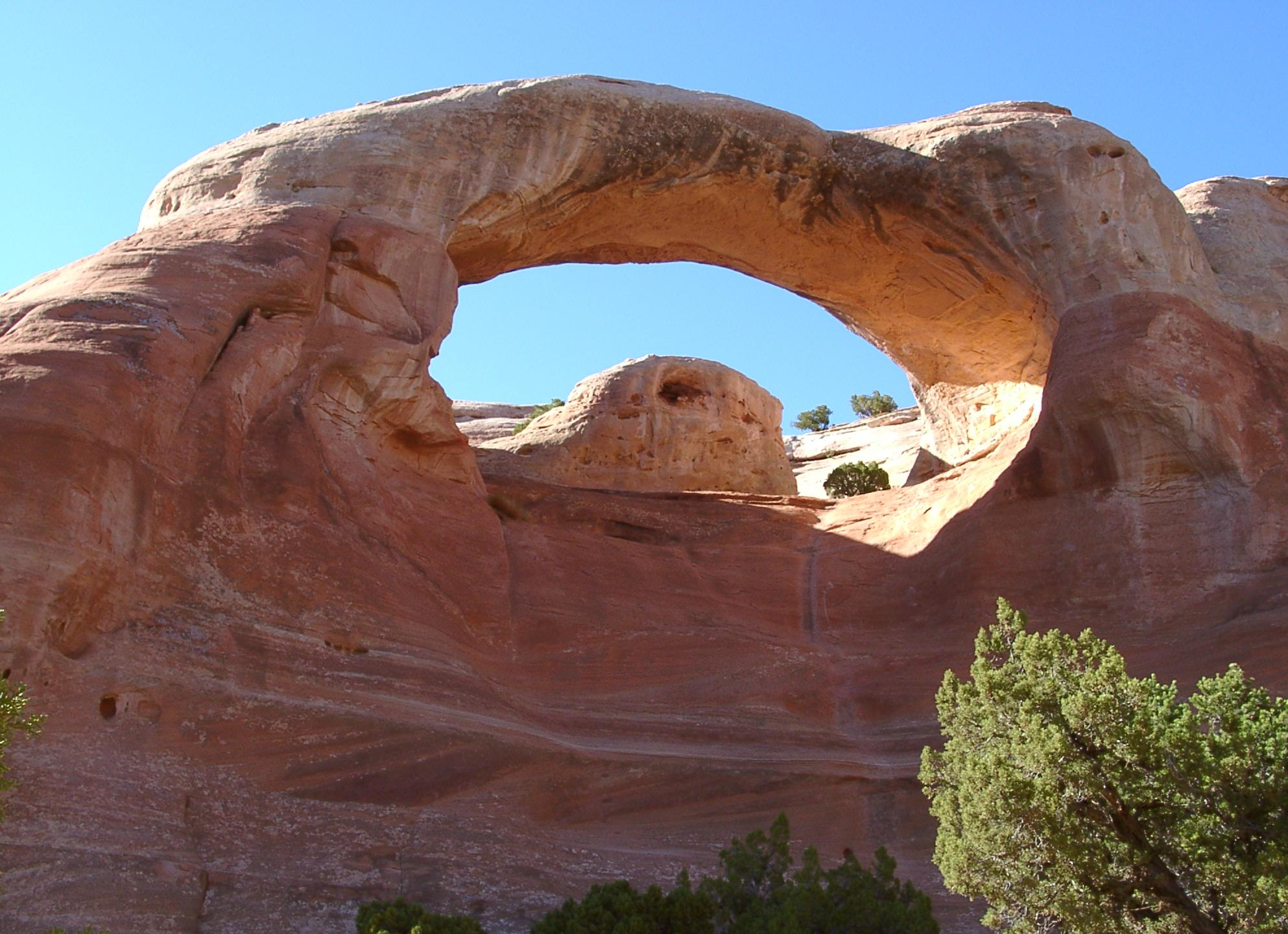 Cedar Tree Arch in Rattlesnake Canyon. Taken 9/14/01 by User:Pretzelpaws with a Casio QV-3000EX camera. Cropped 10/27/05 using the GIMP.